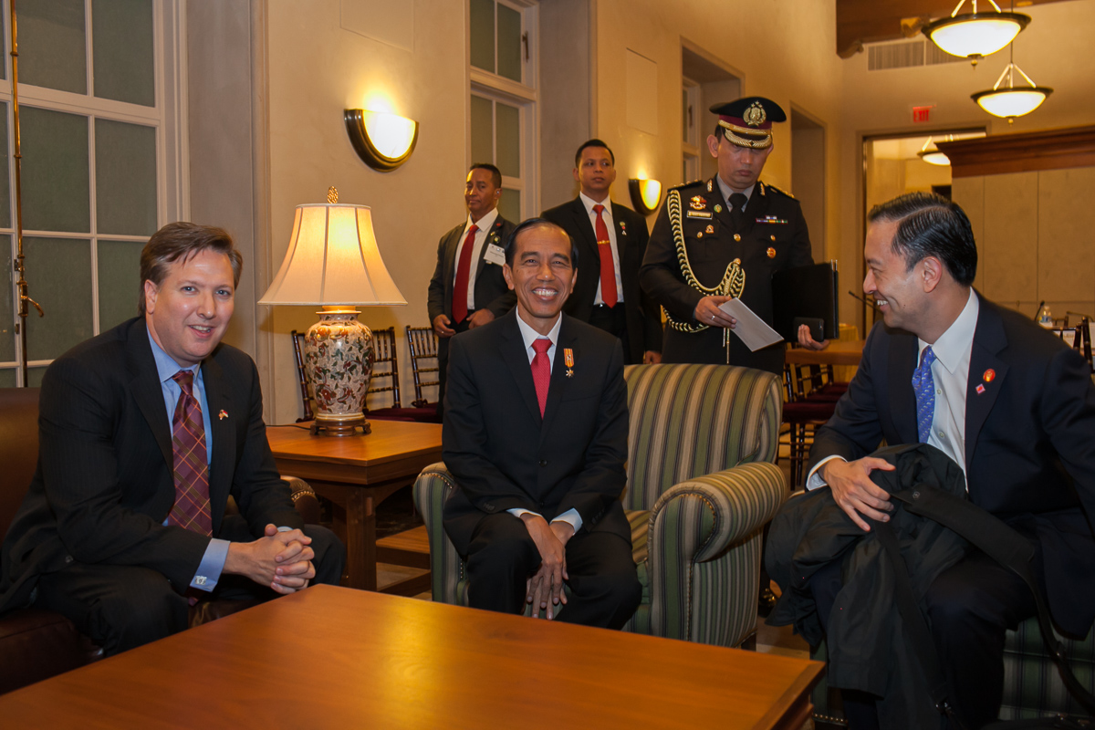 US-ASEAN Business Council President and CEO Alexander C. Feldman with President of Indonesia Joko Widodo